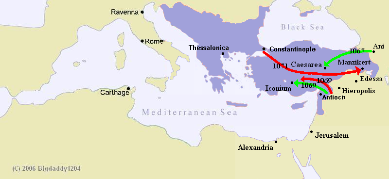 A map showing Byzantine territory (purple), Byzantine offensives (red) and Turkish offensives (green).